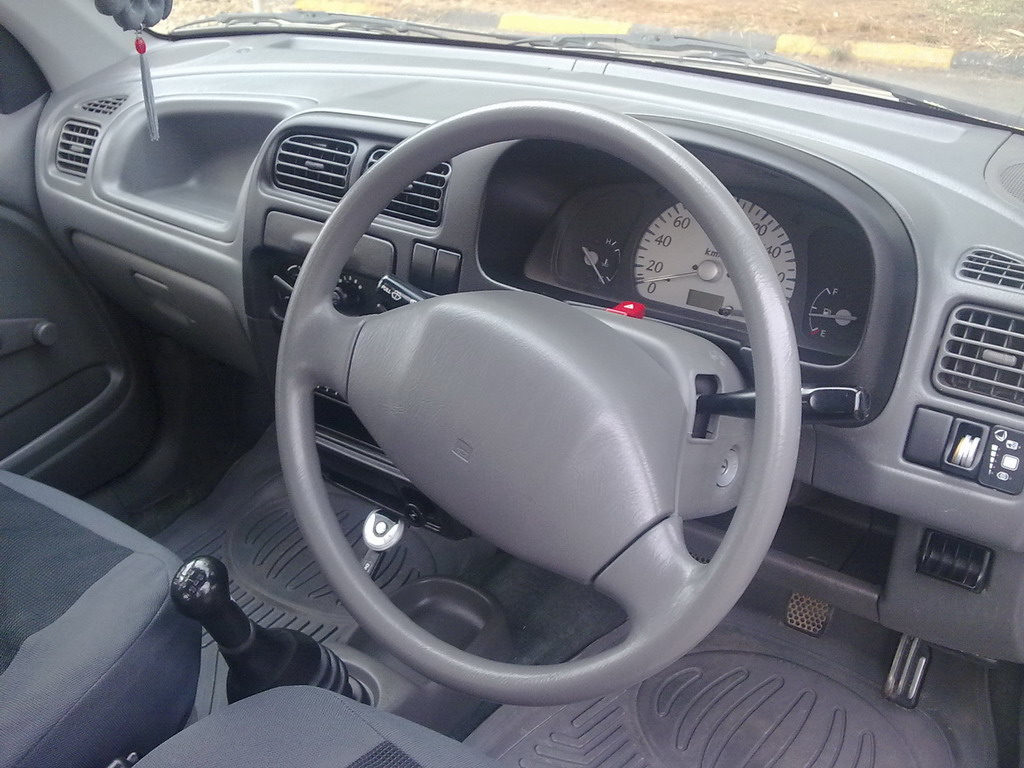 Suzuki Alto interior, Pakistan.